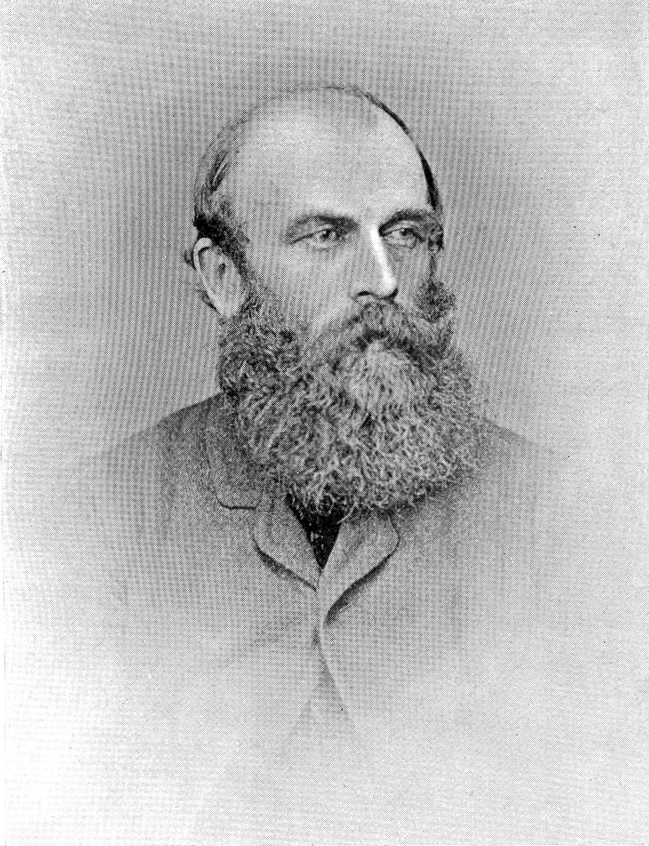 Thomas Strangeways General Collections Keywords: Schools, Veterinary; Thomas Strangeways